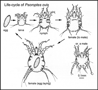 Diagram of the life cycle of Psoroptes ovis parasitic mite of sheep and cattle